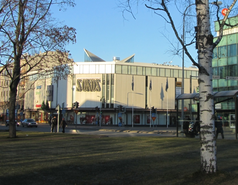 Sokos department store in Joensuu, Finland.